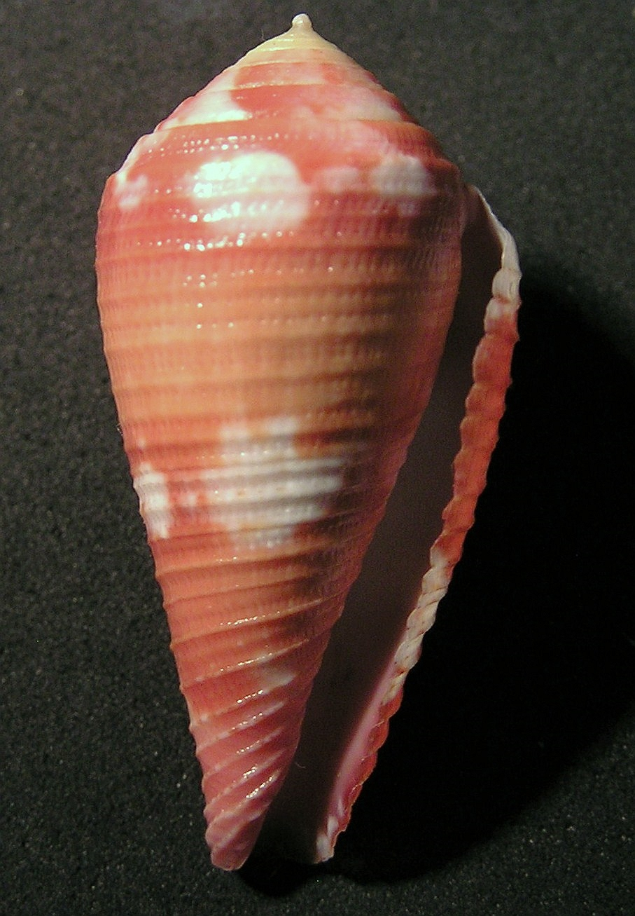 Conus pertusus Hwass in Bruguière, 1792 (synonym: Conus pertusus amabilis Chemnitz in Lamarck, 1810); the Philippines